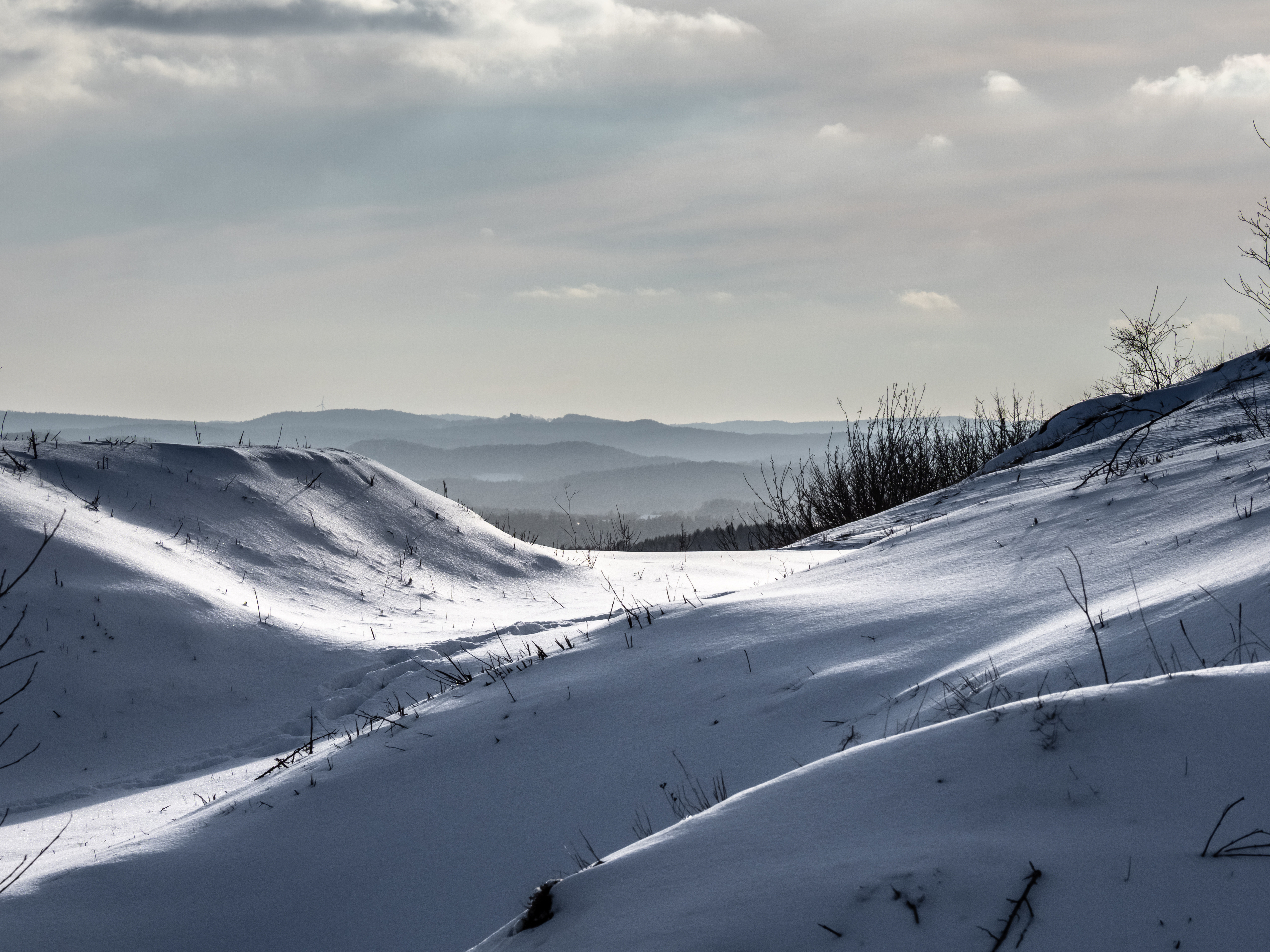 Neubürg in the Franconian Switzerland